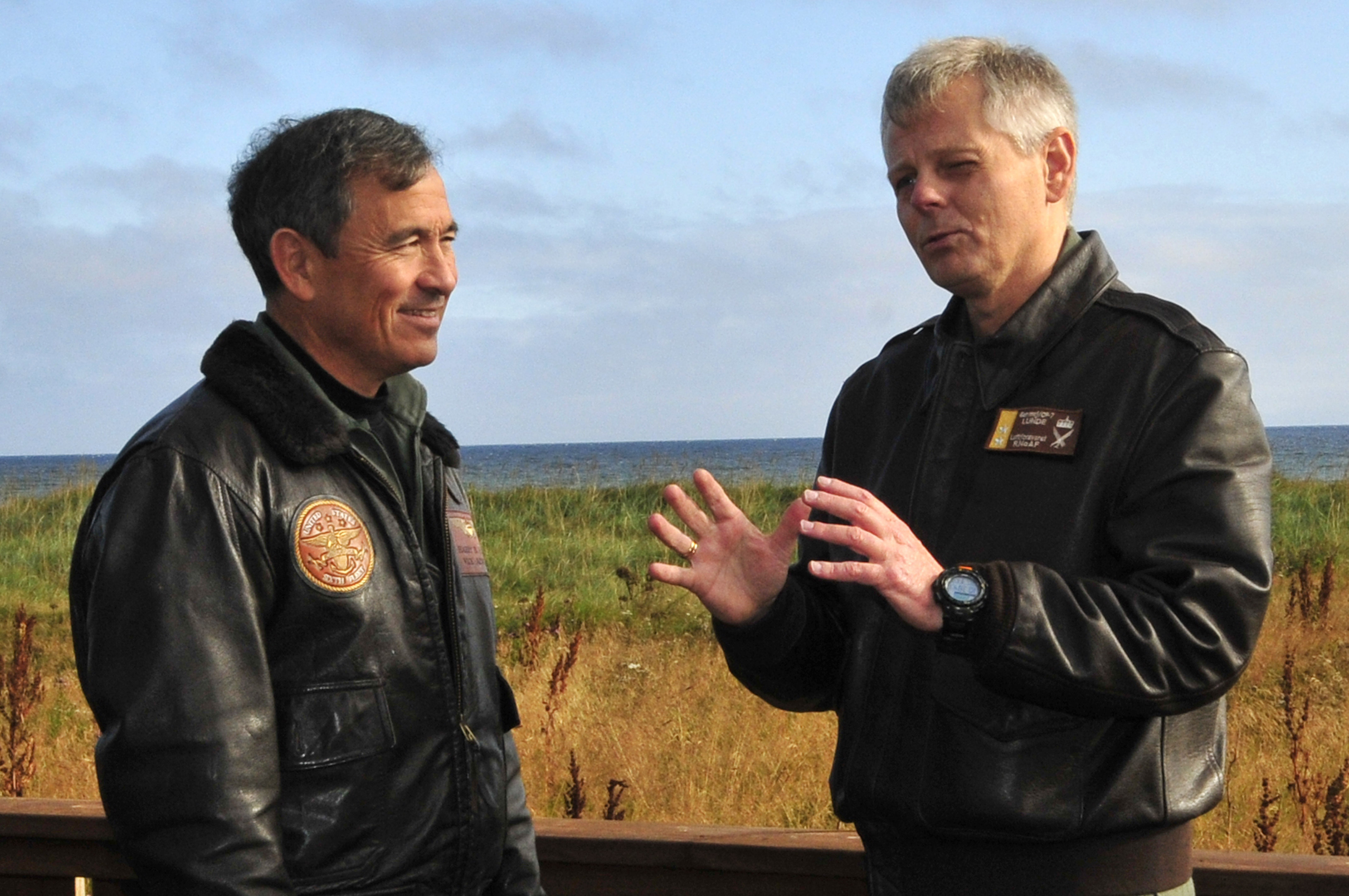 110831-N-IZ292-033: ANDOYA, Norway (Aug. 31, 2011) – Vice Adm. Harry B. Harris Jr., commander, U.S. 6th Fleet, meets with Norwegian Maj. Gen. Morten Haga Lunde from the Royal Norwegian Air Force at Andoya Air Station. Harris visited the station during a four-day visit to Norway as part of U.S. 6th Fleet efforts to strengthen maritime partnerships with Norwegian counterparts. (U.S. Navy photo by Mass Communication Specialist 2nd Class Felicito Rustique/Released)